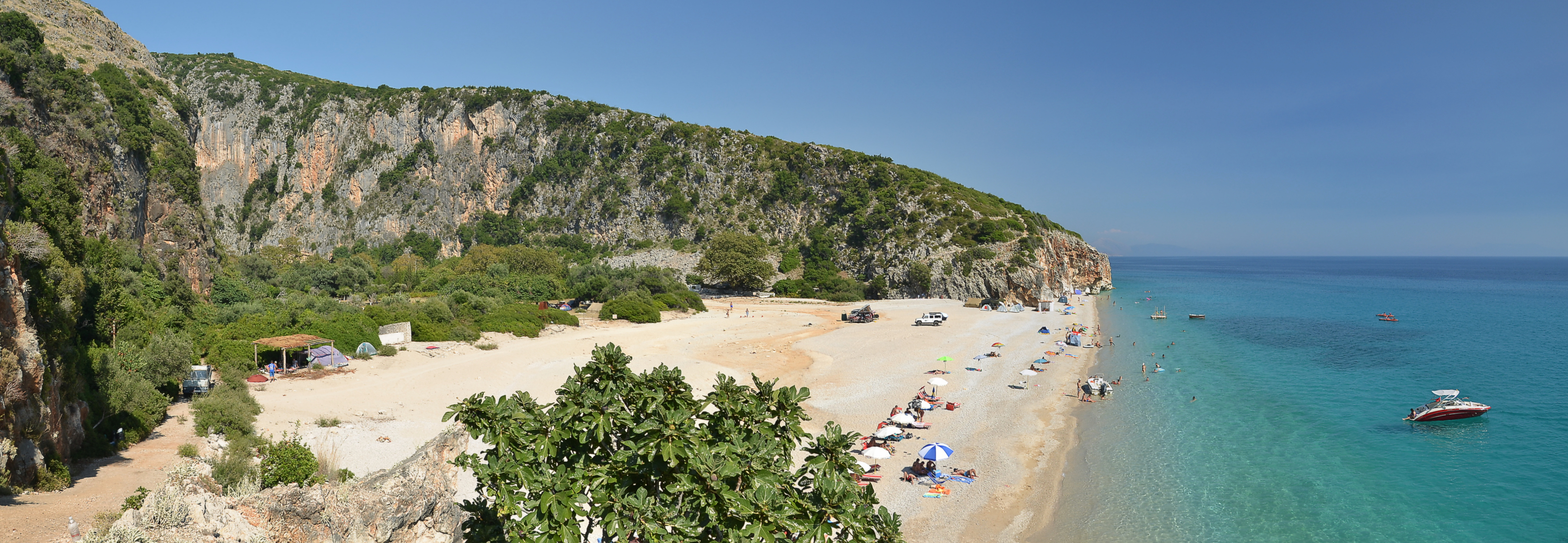 Gjipe Beach, Albania